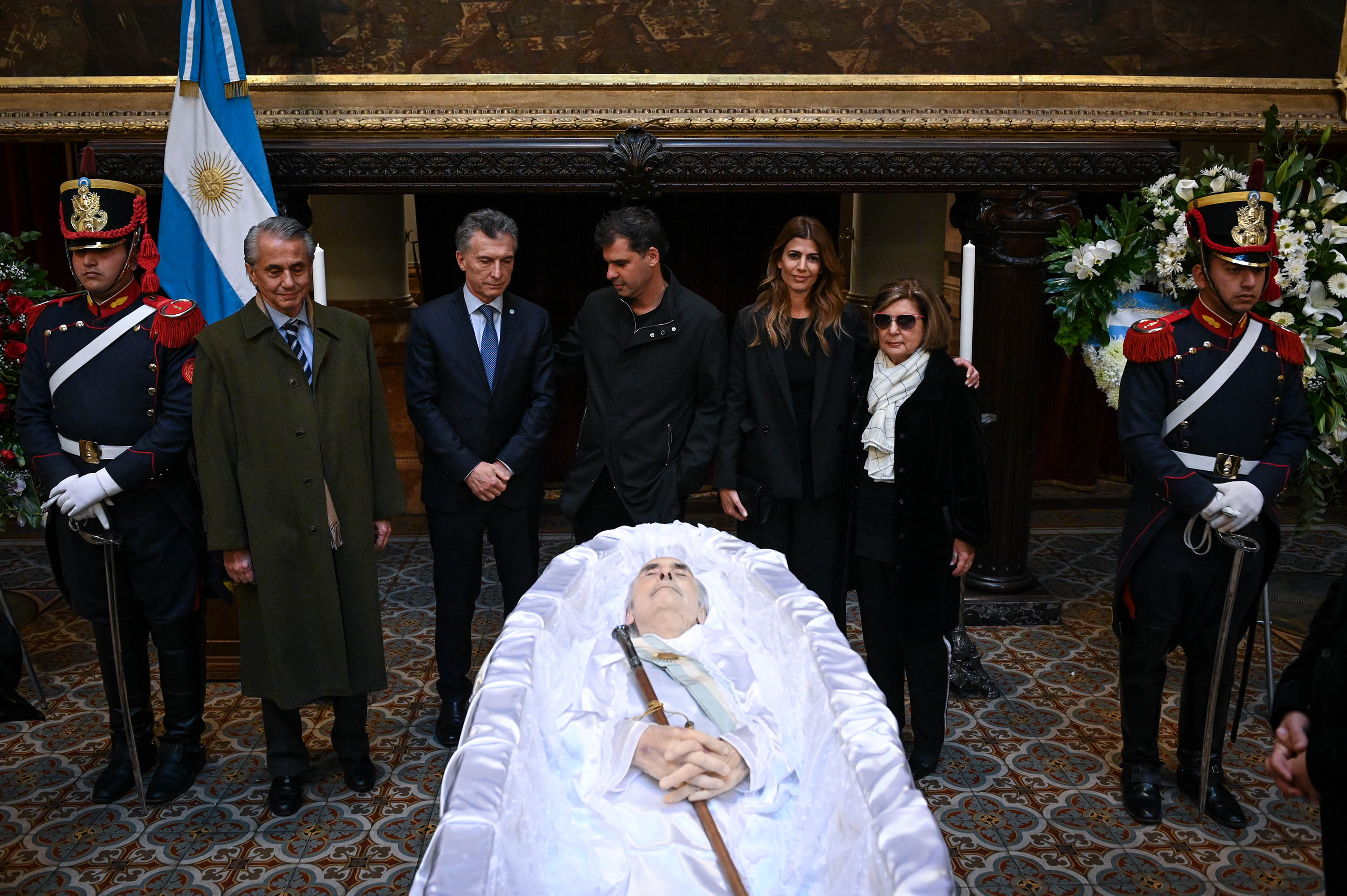 Velorio del expresidente de la Republica Argentina, Fernando de la Rua, en el Salon Pasos Perdidos del Congreso de la Nacion, en Buenos Aires, Argentina, el 9 de Julio de 2019. Foto: Charly Diaz Azcue / Comunicacion Senado